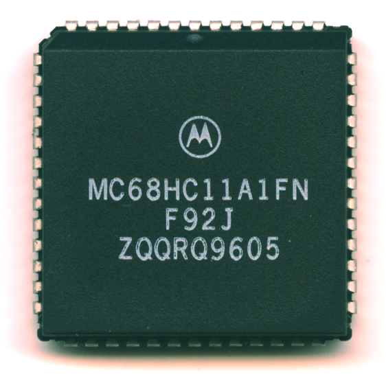 IC photo